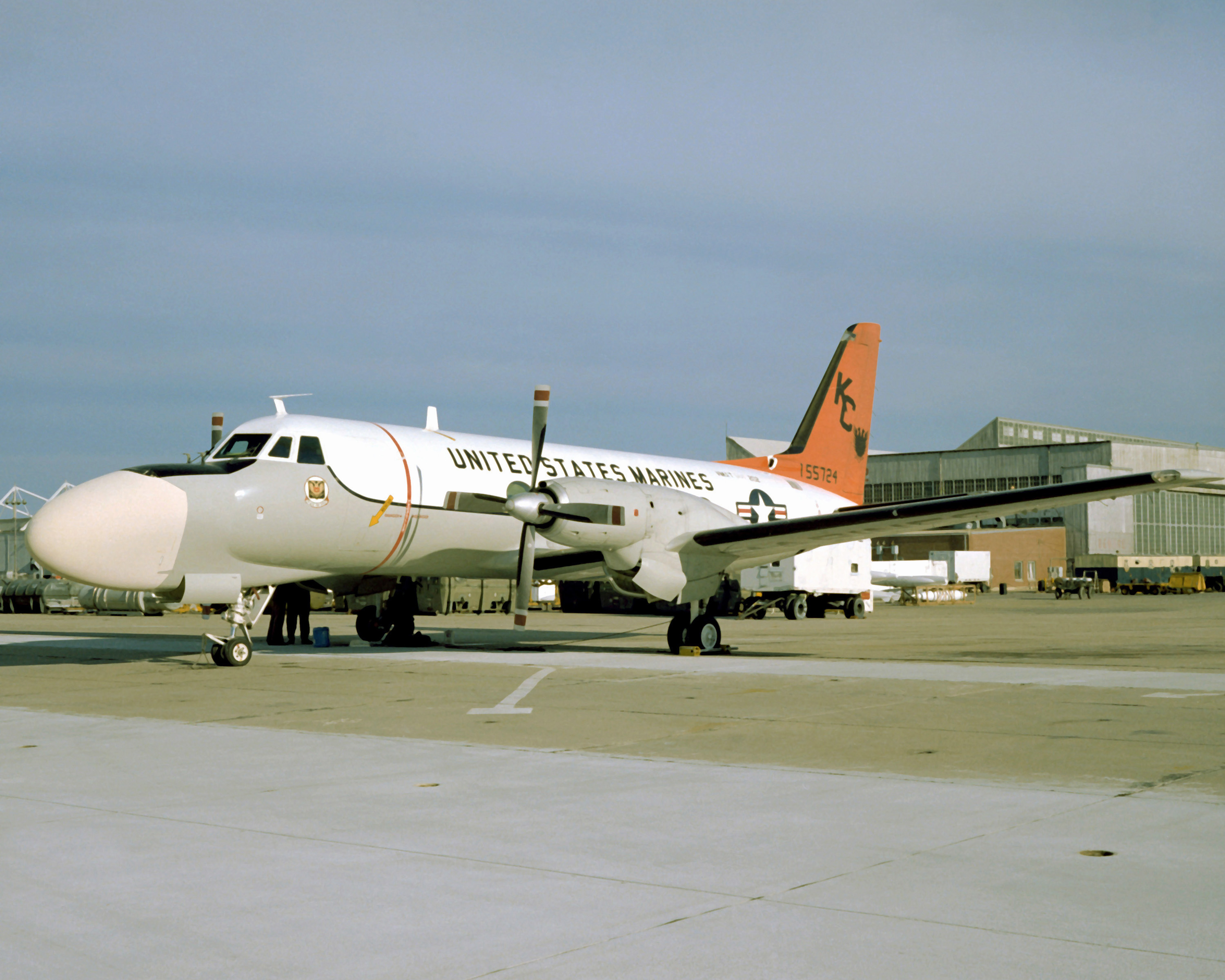 A U.S. Marine Corps Grumman TC-4C Academe (BuNo 155724) from Marine all-weather attack training squadron VMAT(AW)-202 Double Eagles on 1 December 1978 at Marine Corps Air Station Cherry Point, North Carolina (USA). The TC-4C was used to train bombardiers and navigators for the A-6 Intruder aircraft.